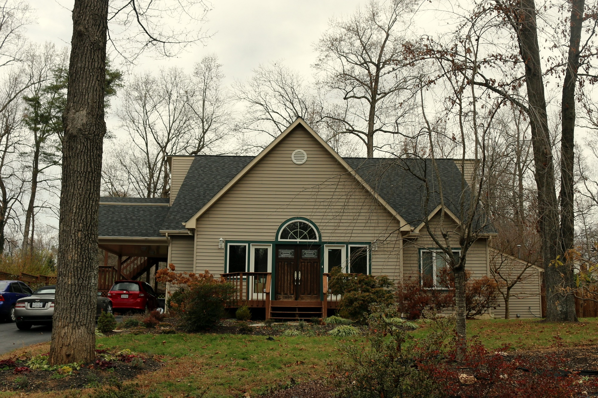 Rouhollah Khaleghi Artistic Center in Virginia, United States. Photo: Pejman Akbarzadeh / Persian Dutch Network